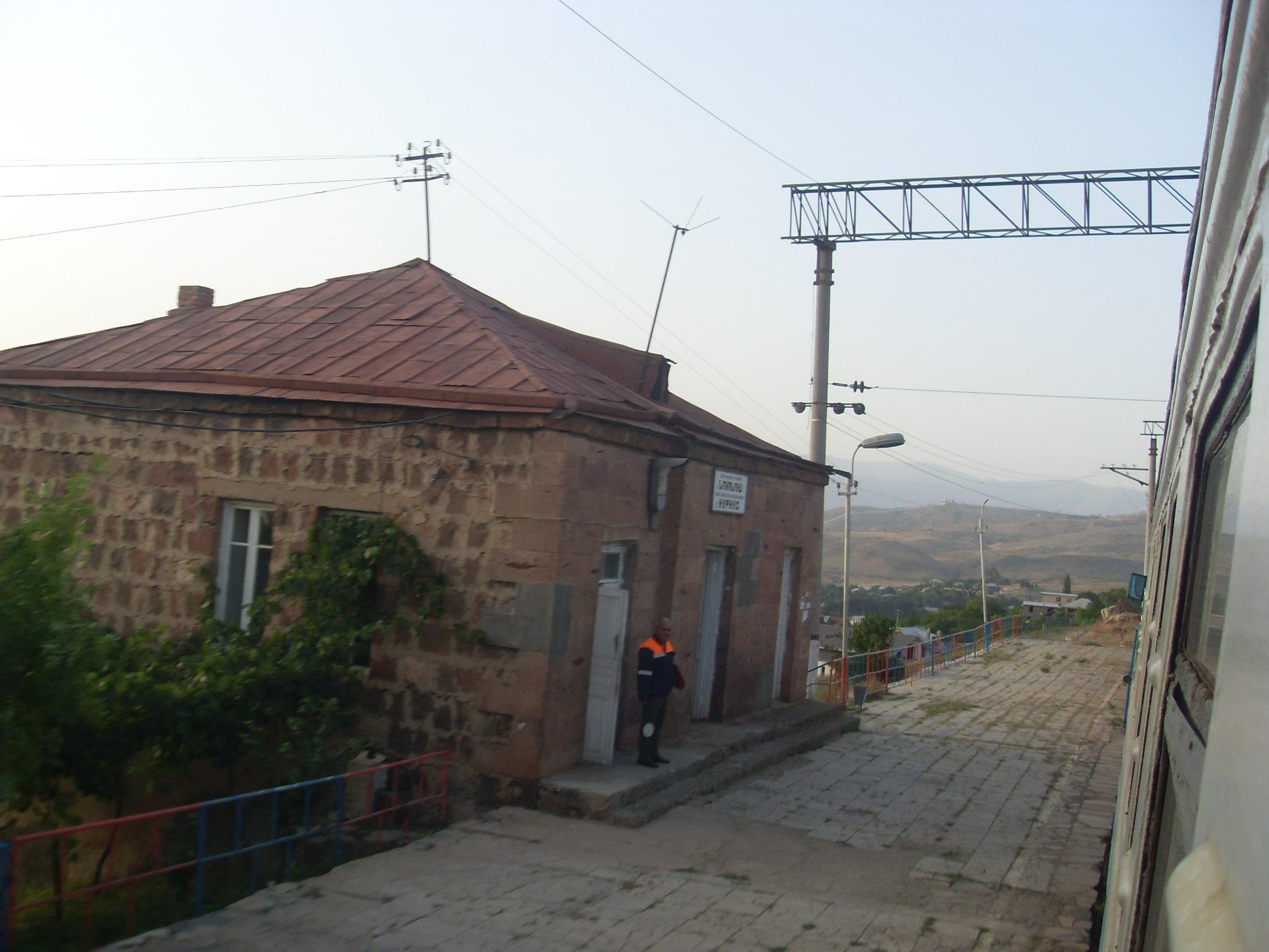 Nurnus (Armenian: Նուռնուս) is a village in the Kotayk Province of Armenia.